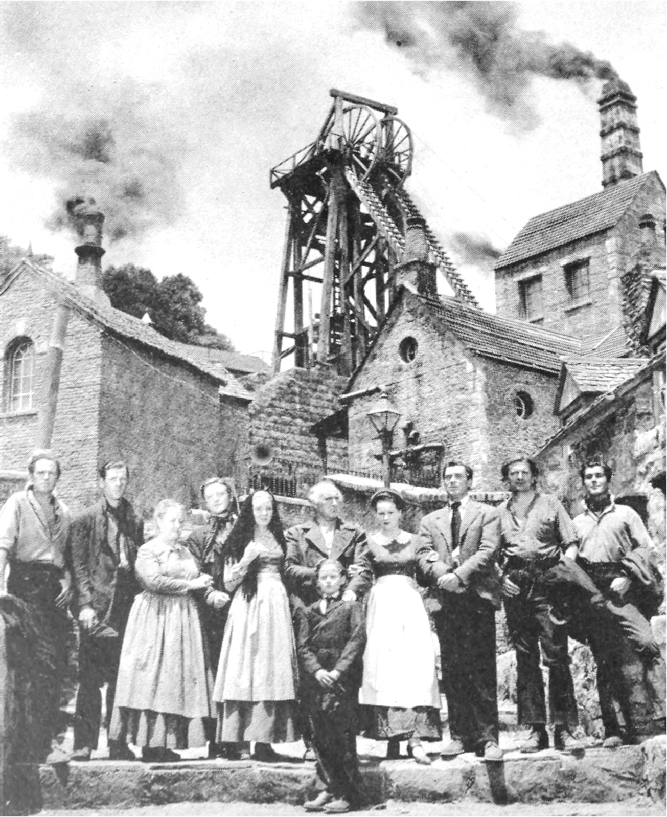 Photo from the 1941 film ‘’How Green Was My Valley’’.